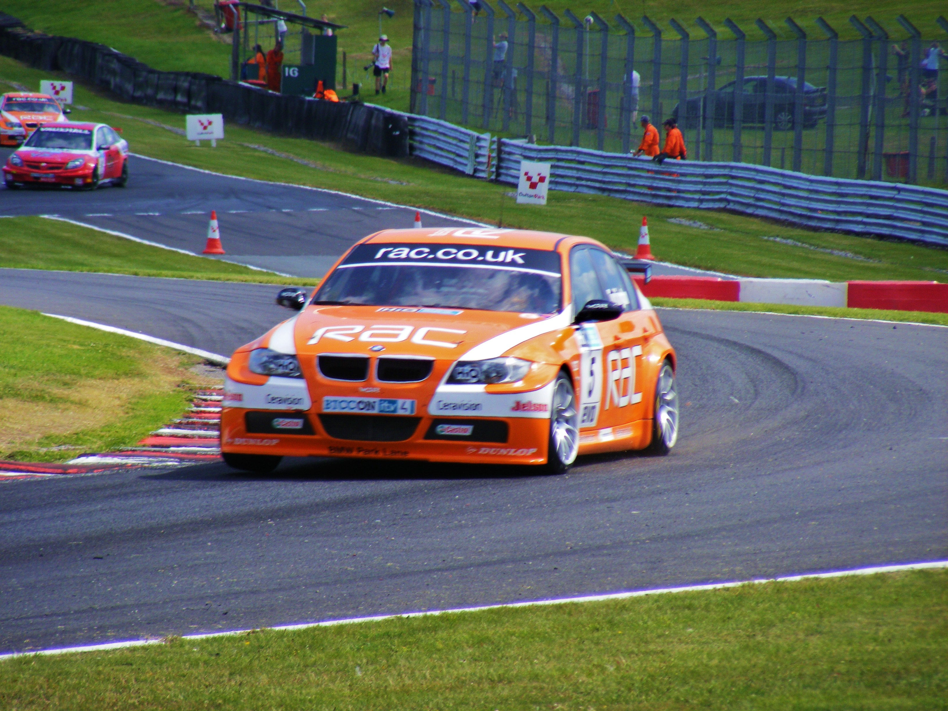 Colin Turkington goes through Knickerbrook corner at Oulton Park during the qualifying session.